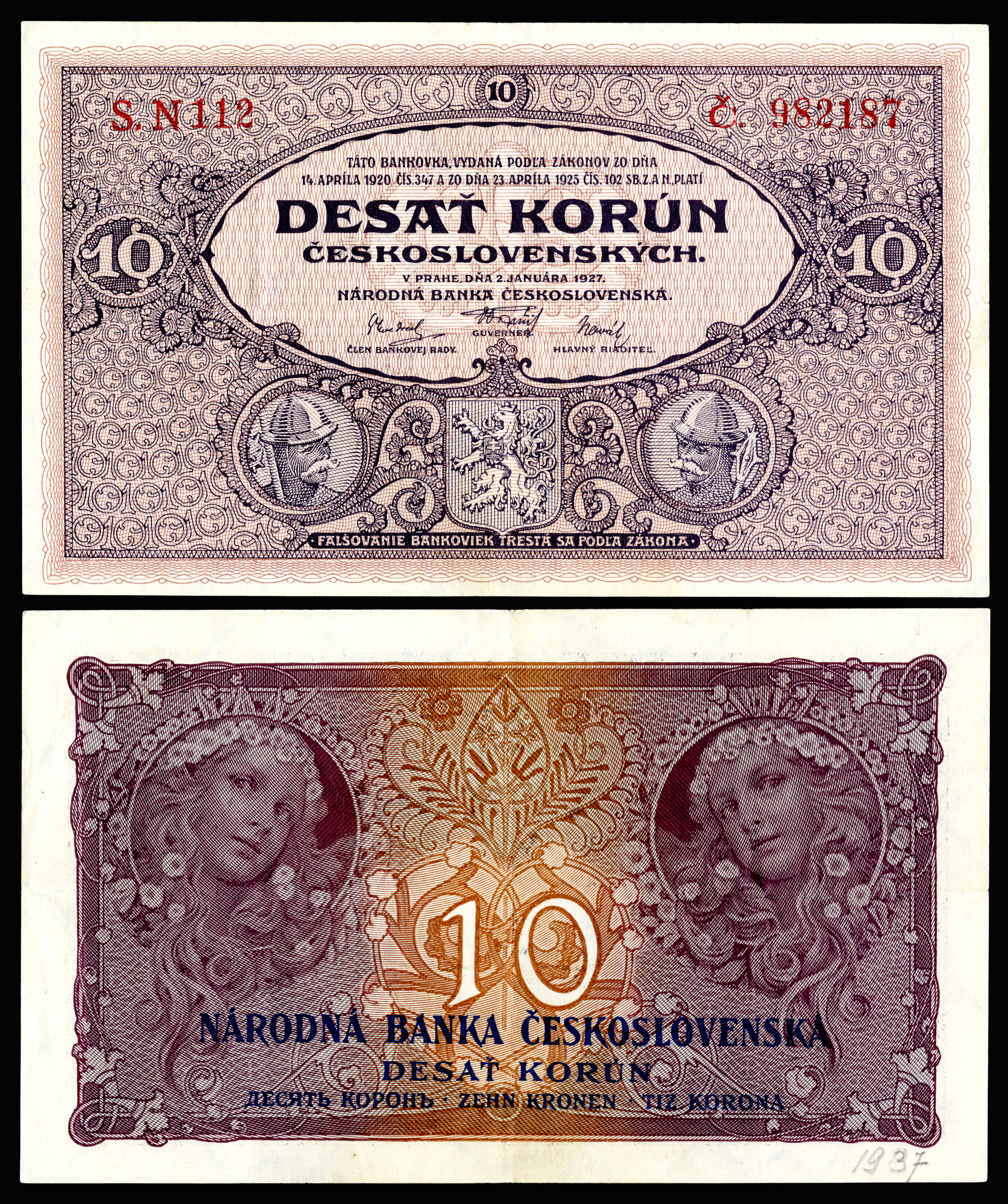 CZE-20-Czechoslovak National Bank-10 Korun (1927)